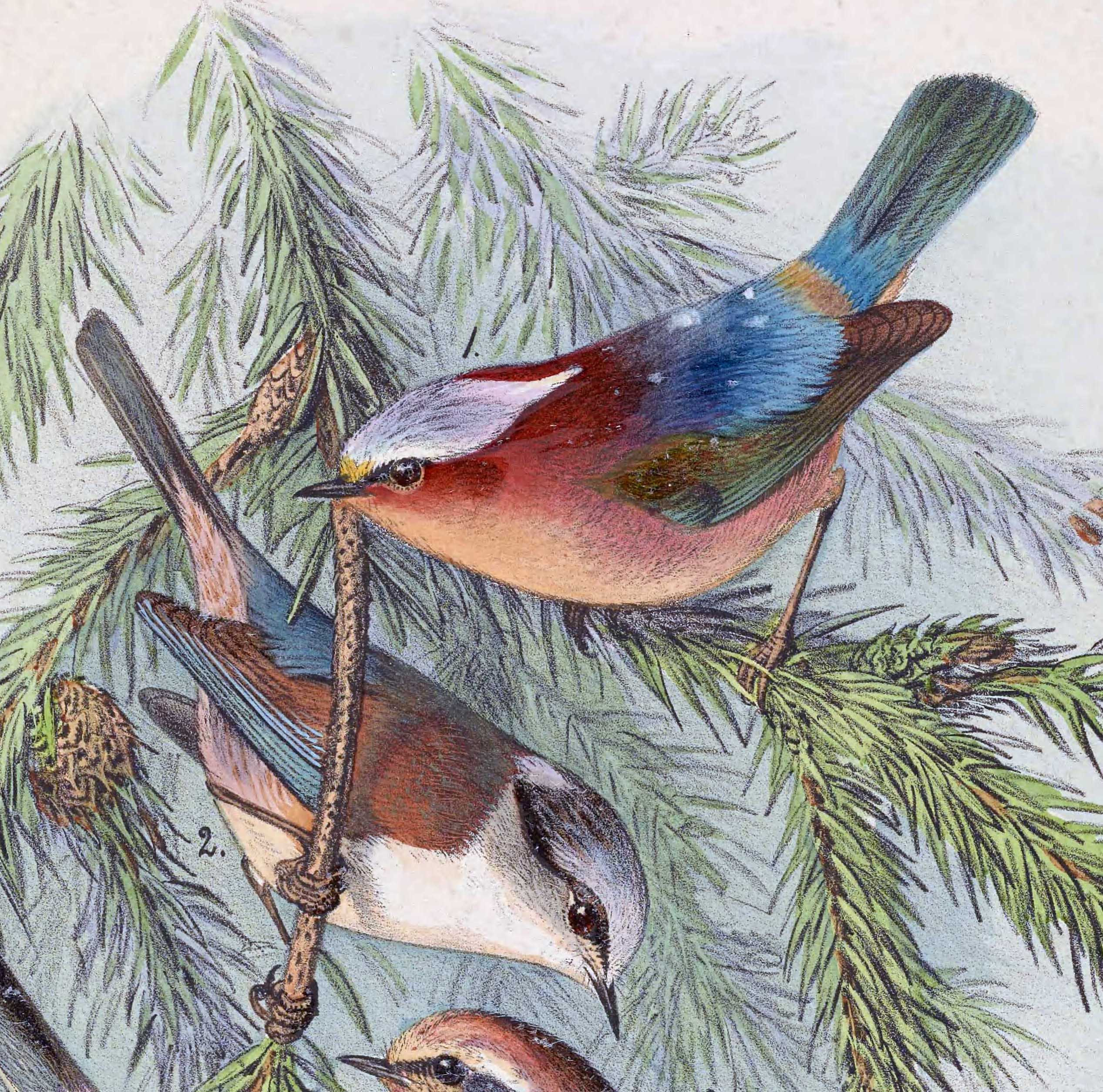 « Lophobasileus elegans » = Leptopoecile elegans elegans (Subspecies of Crested tit-warbler) - male and female